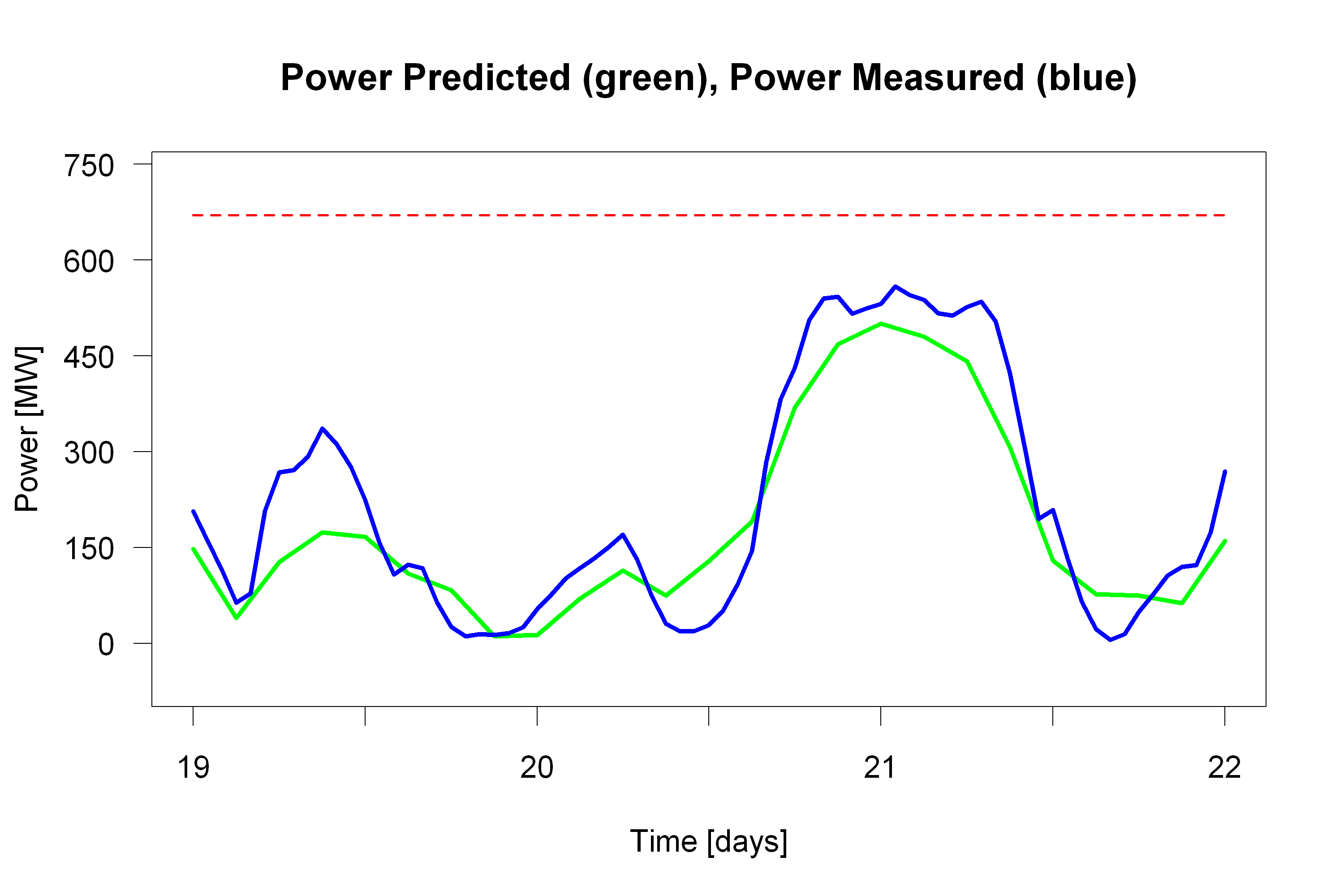 A typical wind power prediction curve (green) together with the actual power data (blue). The dotted red line is the nameplate rating (MWp).